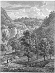 Sierra Morena copper engraving.